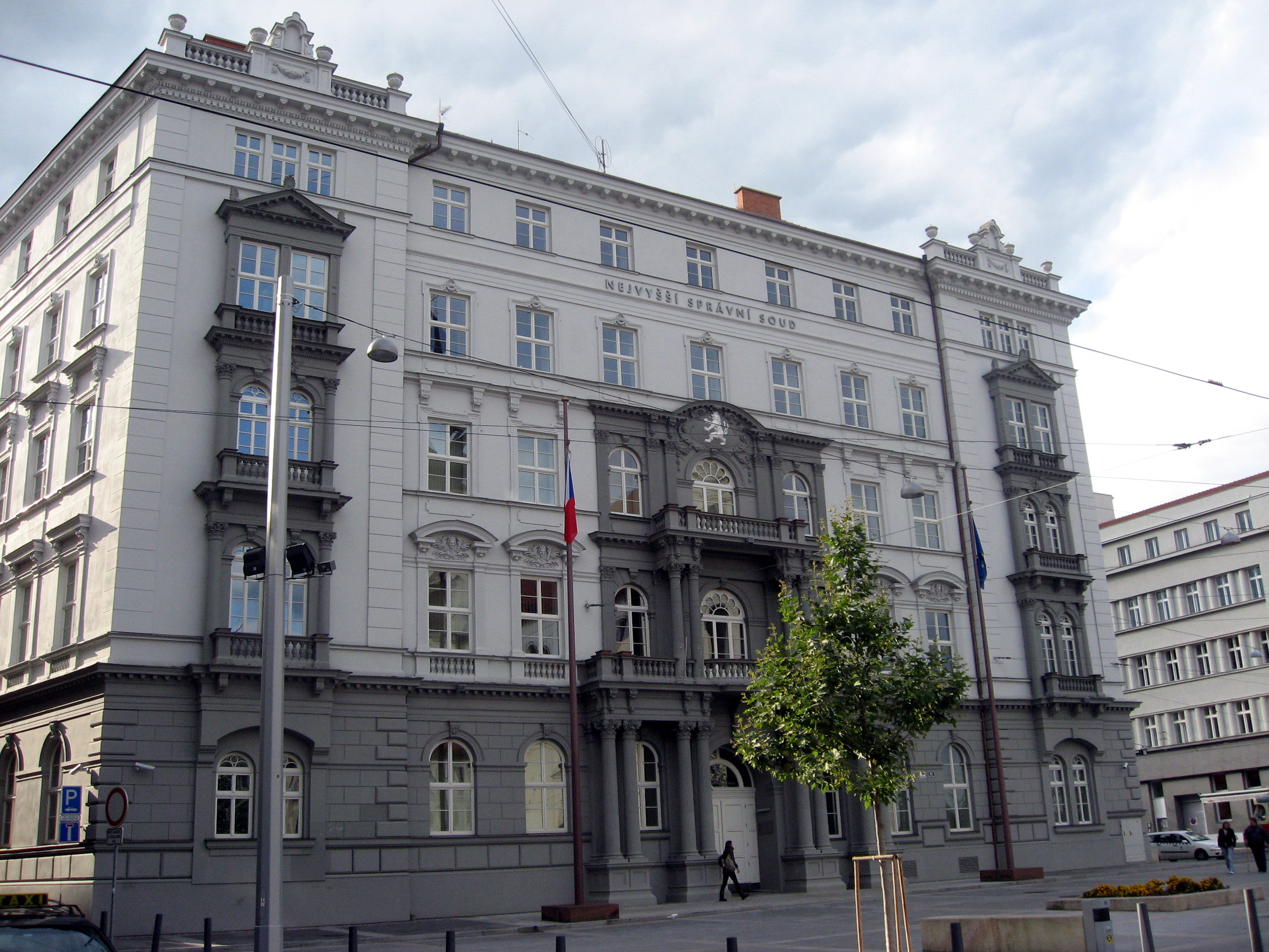 Building of Supreme administrative court of the Czech Republic, Brno